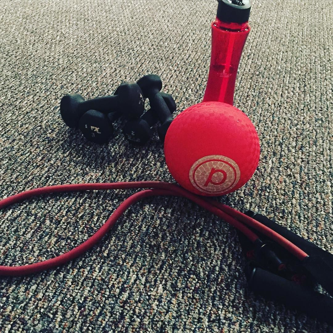 A yoga strap, pilates ball, and handweights, as used in a Pure Barre barre class.